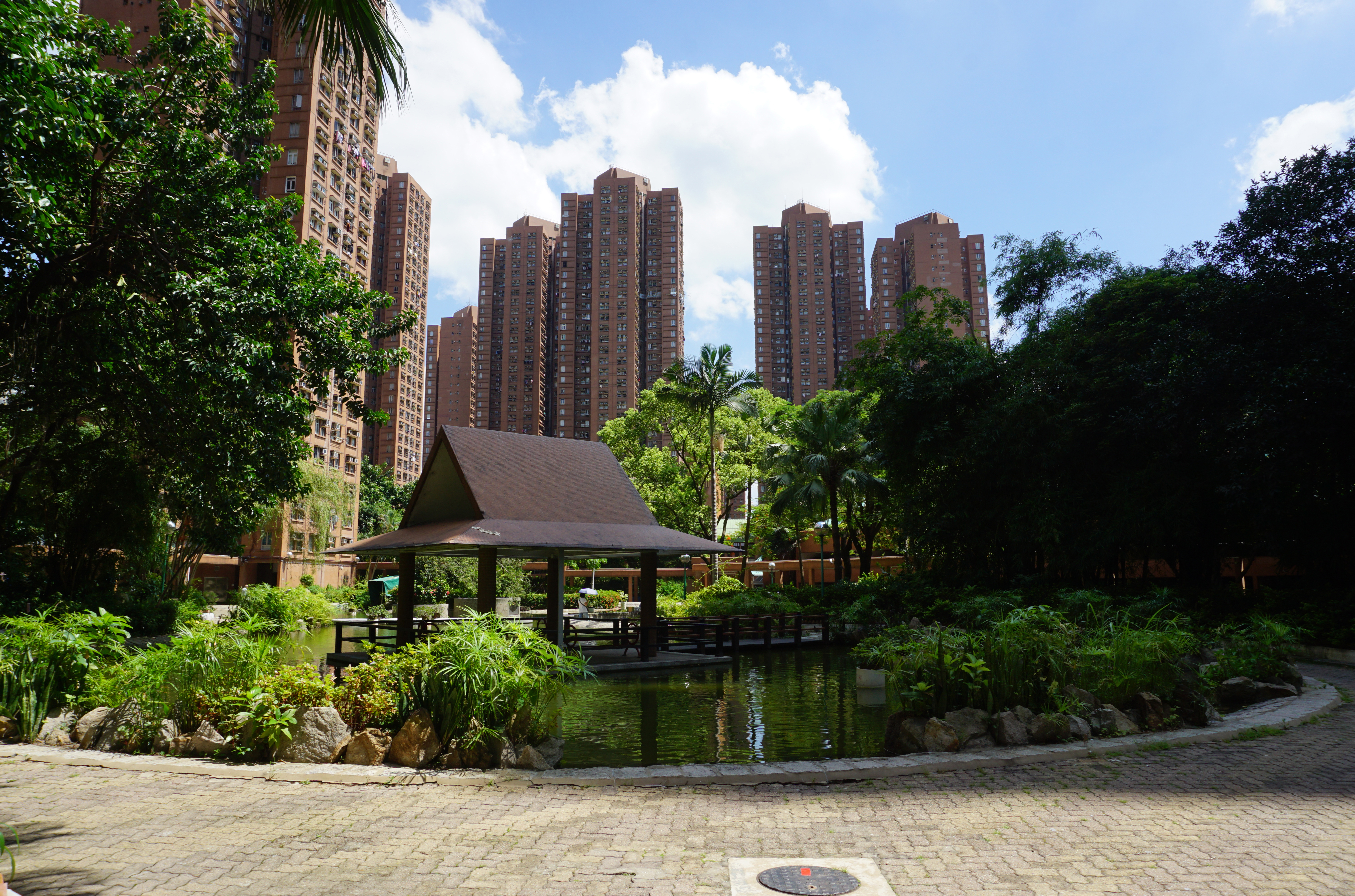 Siu Hong Court in Tuen Mun, Hong Kong.